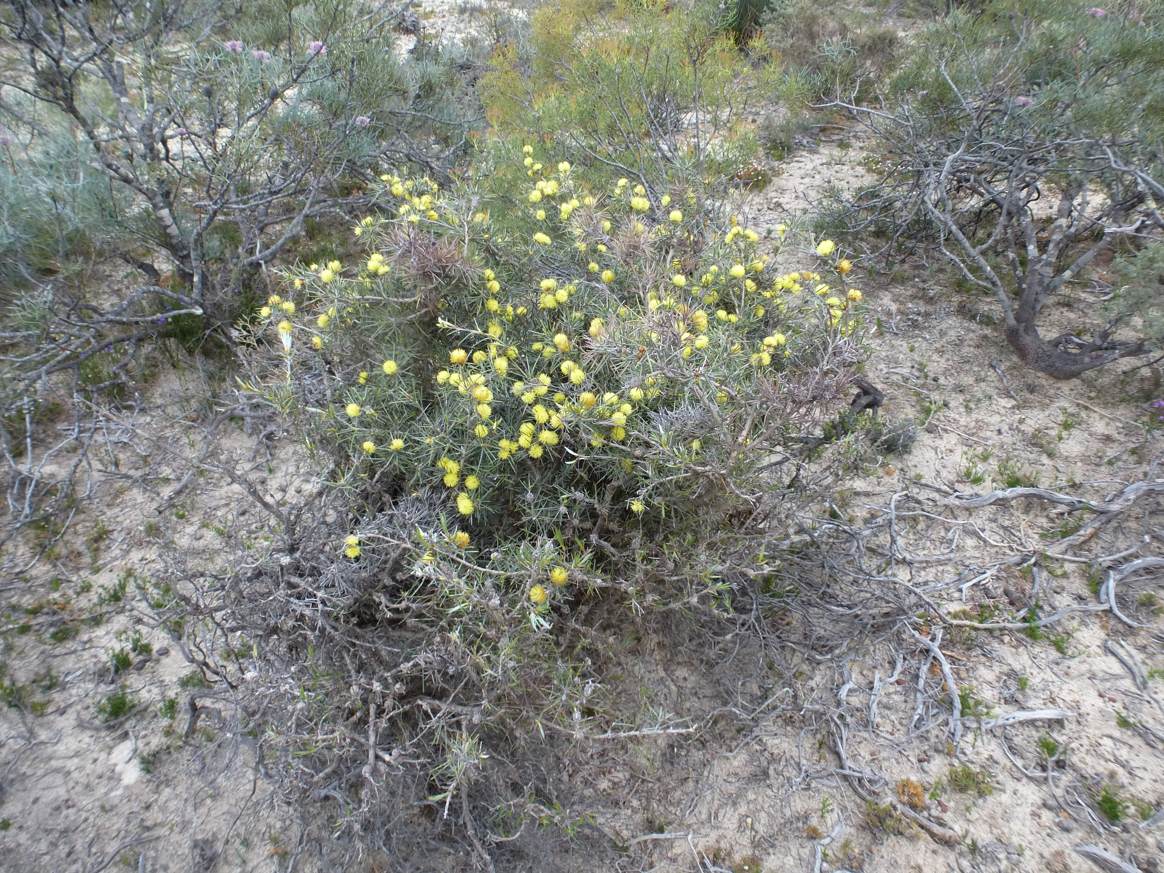 Melaleuca pungens growing in the Corrigin Nature Reserve